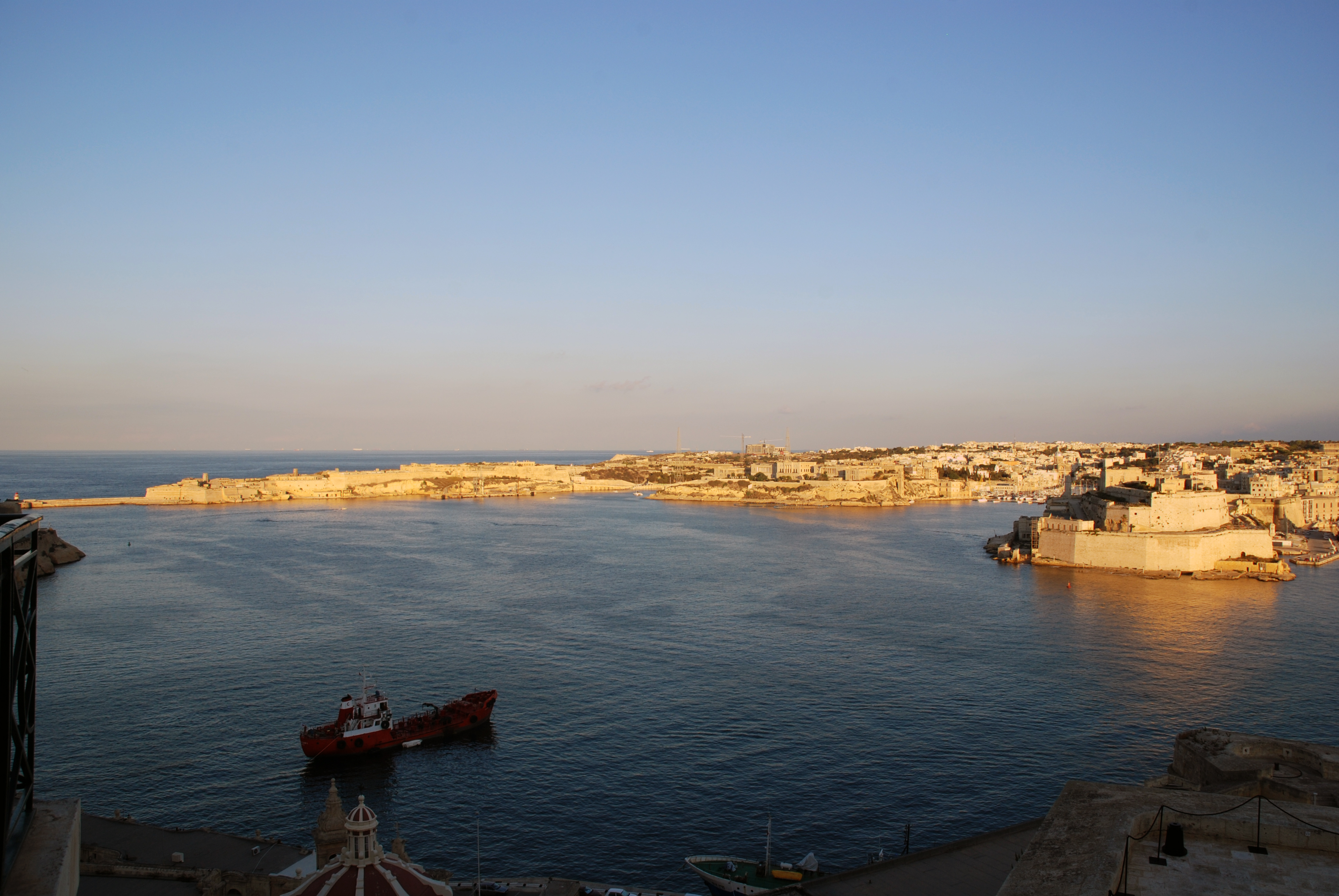 Grand Harbour, view from somewhere in Valletta,Malta,Sep 2013.